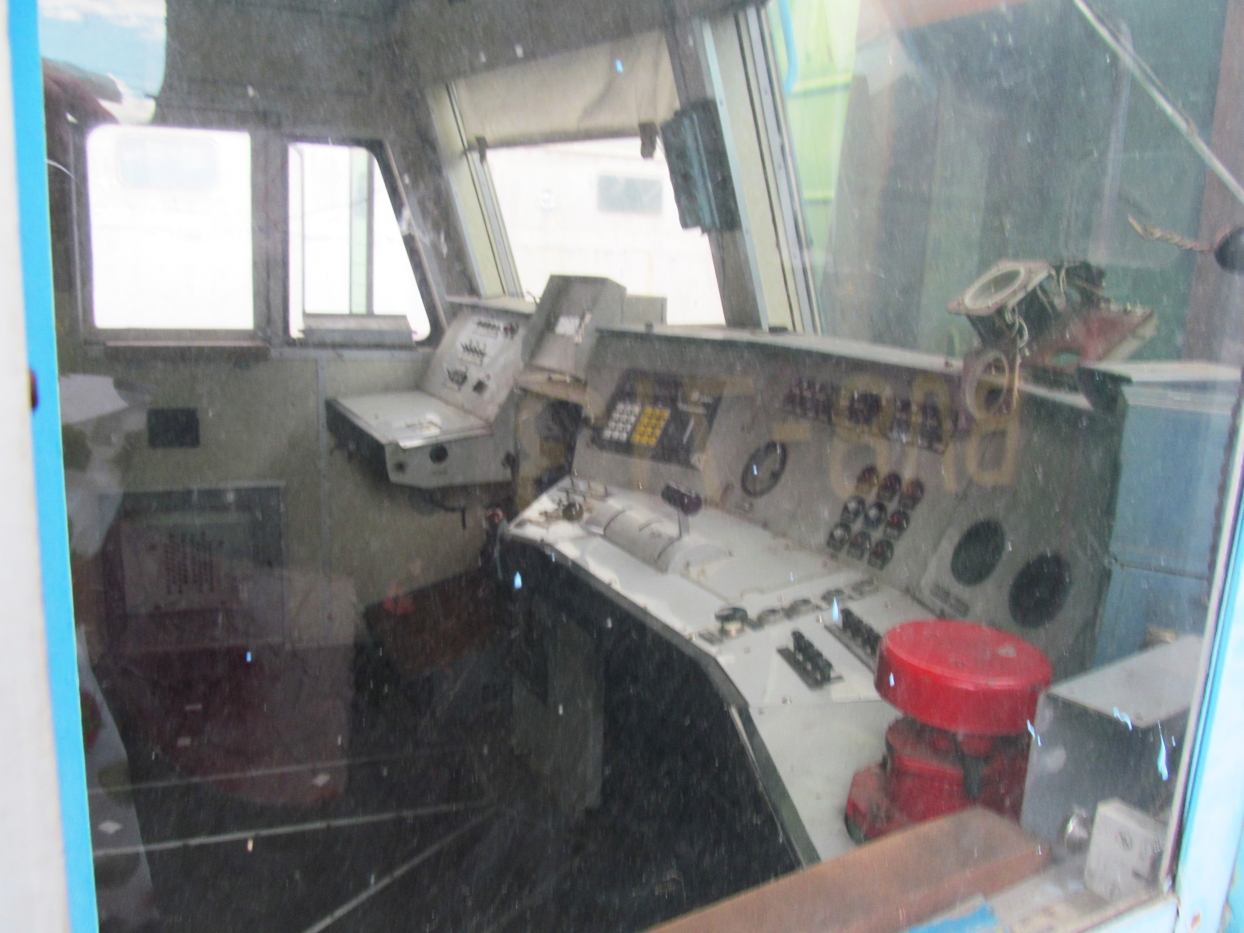 EMU EN3 cab interior (car EN3-001.05, Rostov Museum of railway equipment)